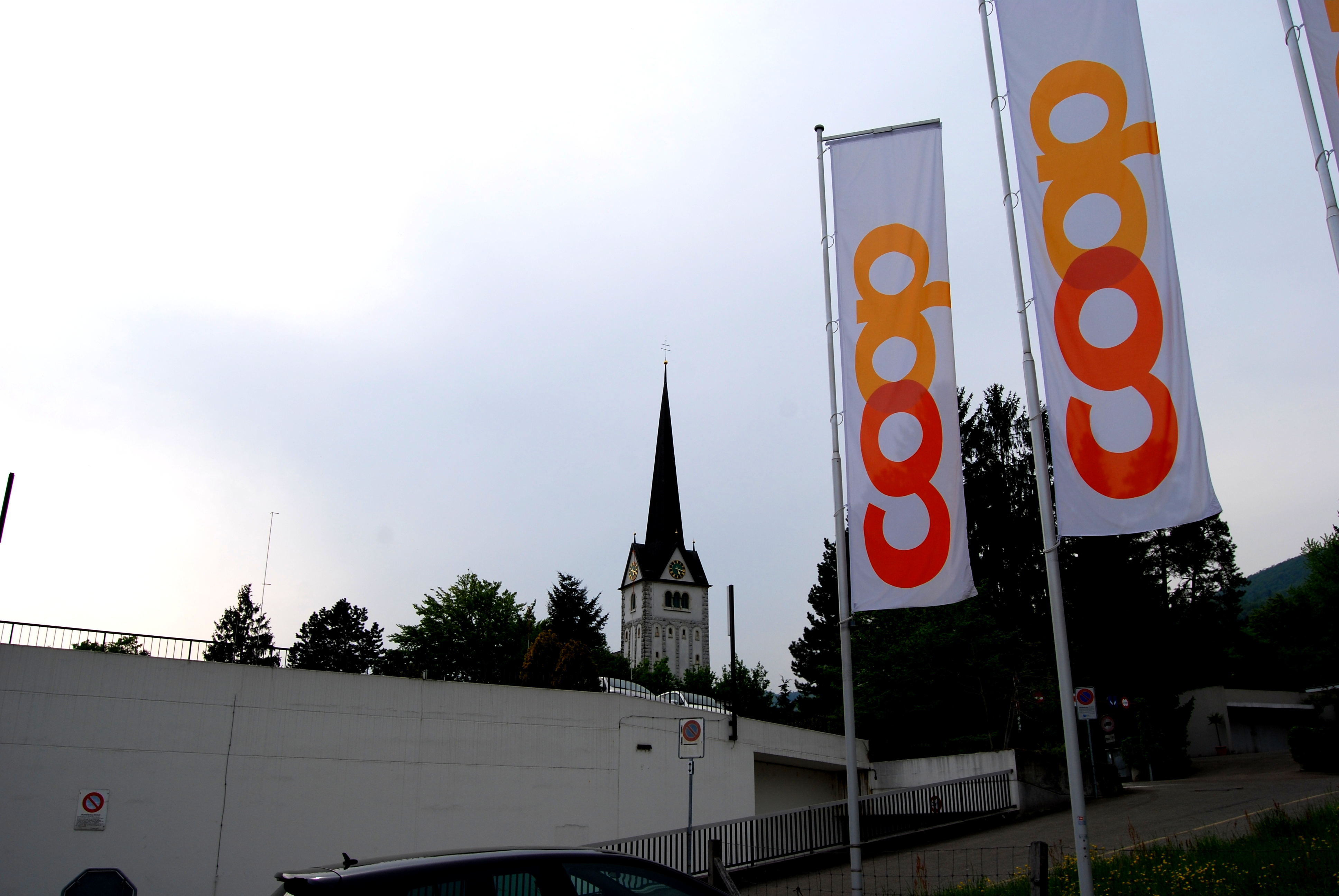 Church of Wangen bei Olten, canton of Solothurn, SwitzerlandEsperanto: Preĝejo de Wangen ĉe Olten, Kantono Soloturno, Svislando